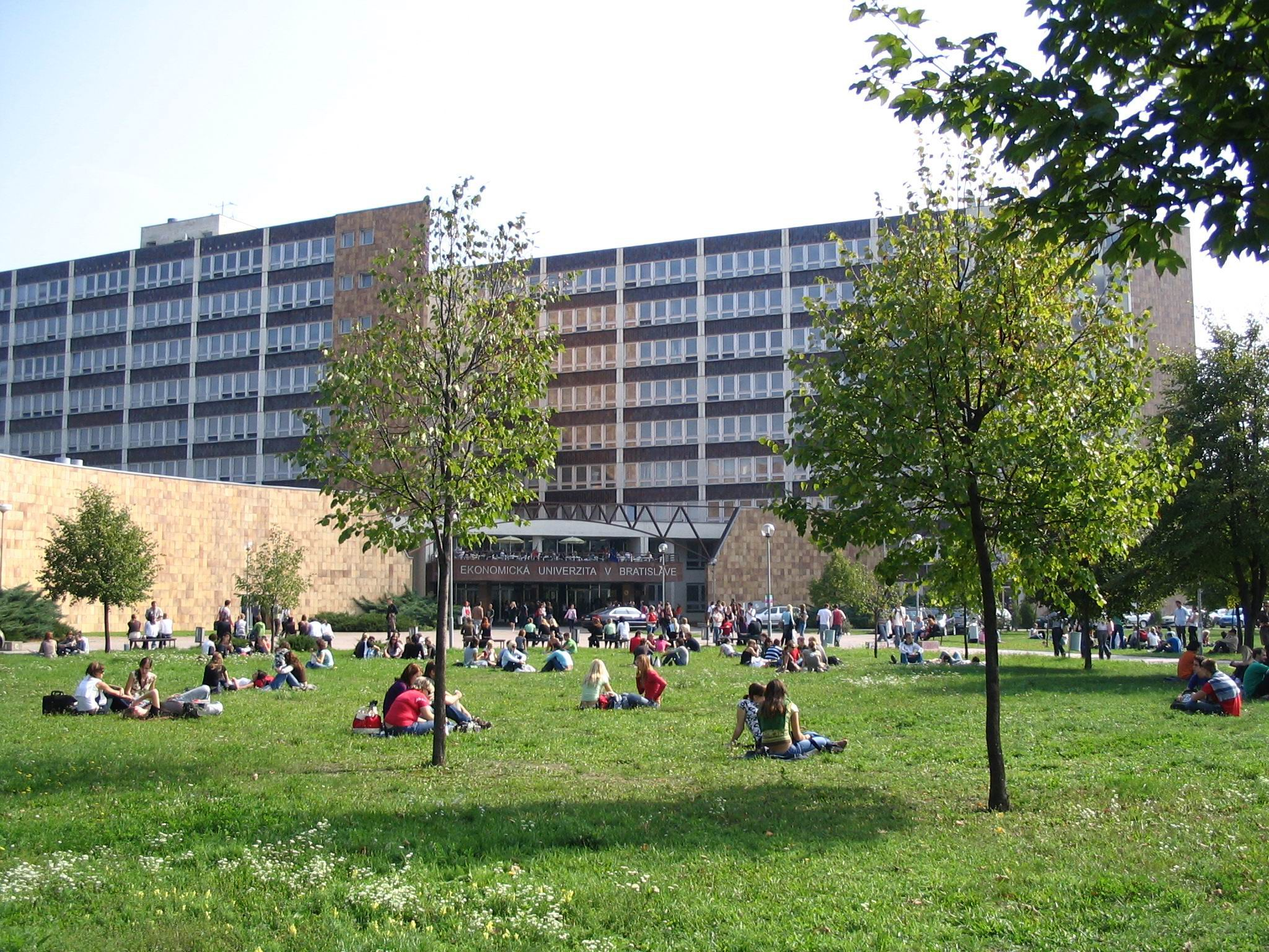 Main Building Hall of the University of Economics in Bratislava at Dolnozemská cesta 1, Bratislava